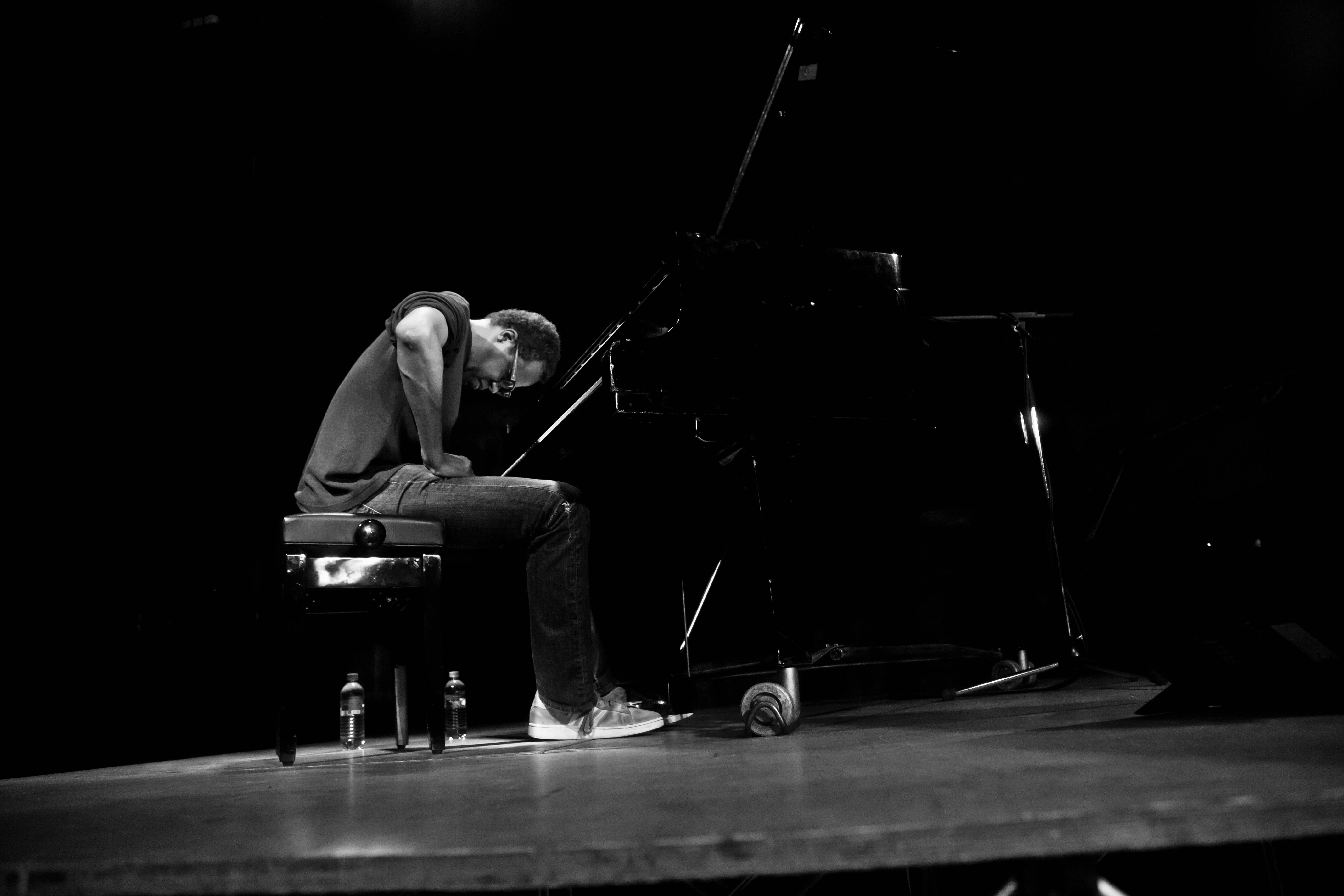 Matthew Shipp and Ivo Perelman in Moscow club "DOM"